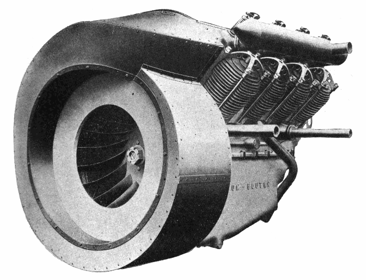 De Dion-Bouton 78 hp V-8 aircraft engine